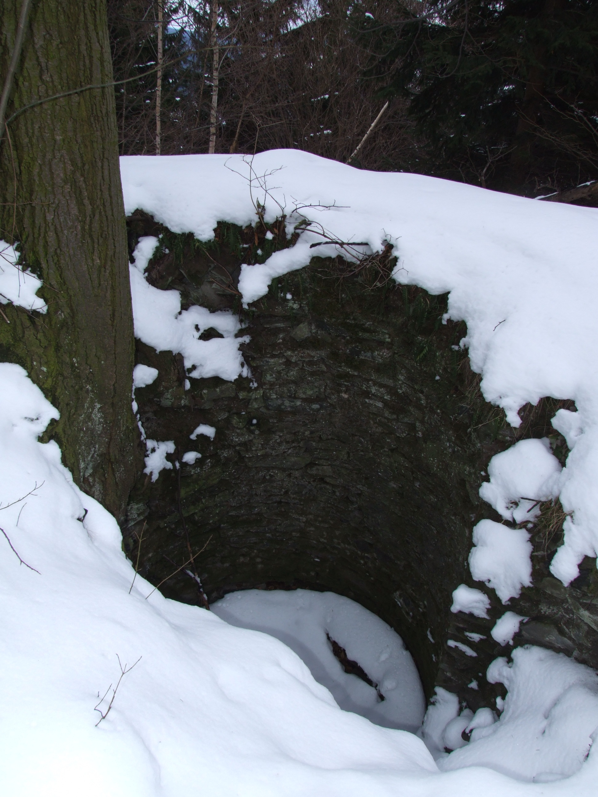 Castle Leuchtenštejn - Leuchtenstein, Czech Silesia. Ruins of tower. Česky: Hrad Leuchtenštejn (Leuchtenstein) - zřícenina věže.